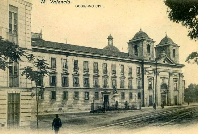 Temple Square. Valencia. Spain.